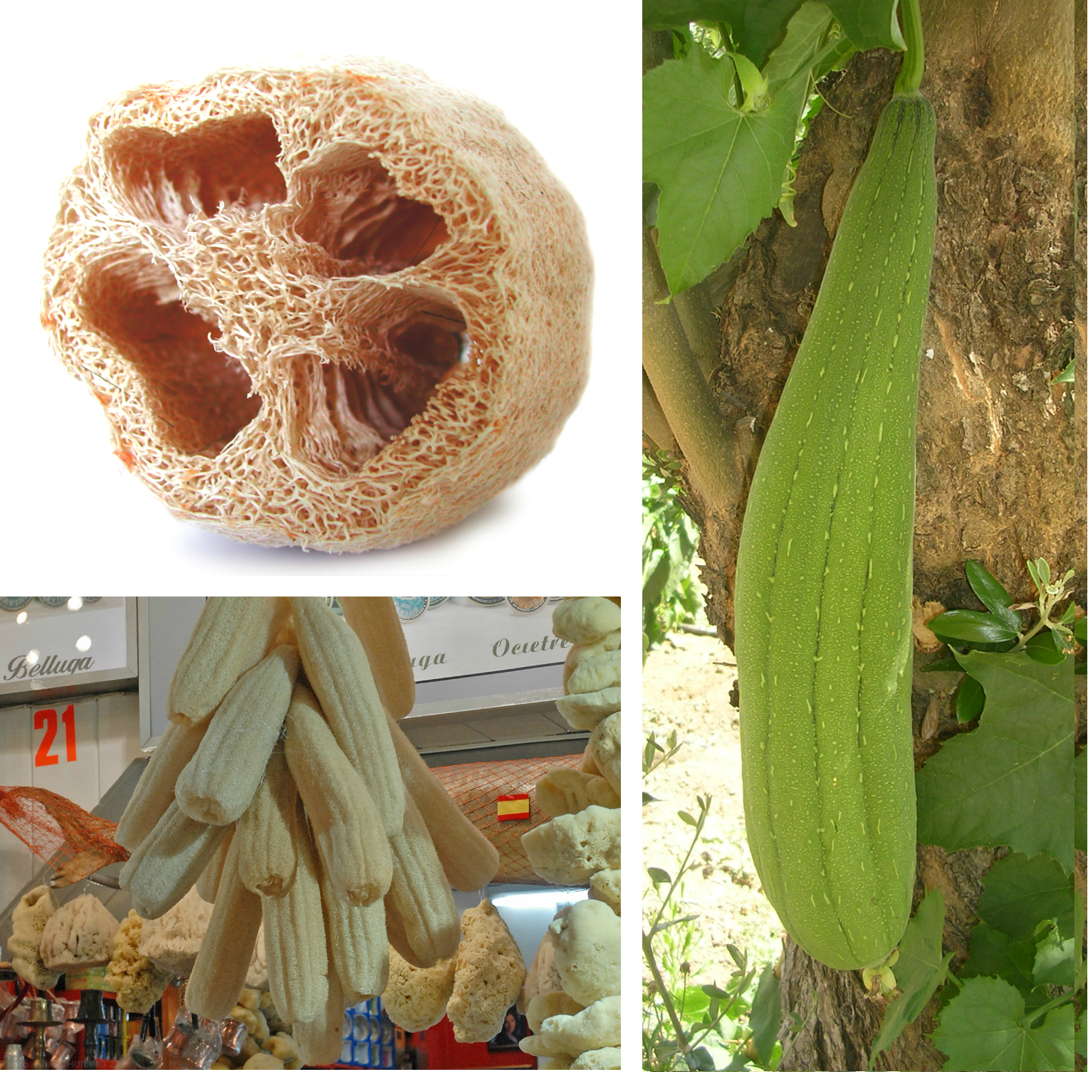 Luffa aegyptiaca immature fruit ready for harvest as a vegetable (right) and mature and peeled mature fruit used as a vegetal sponge (left).